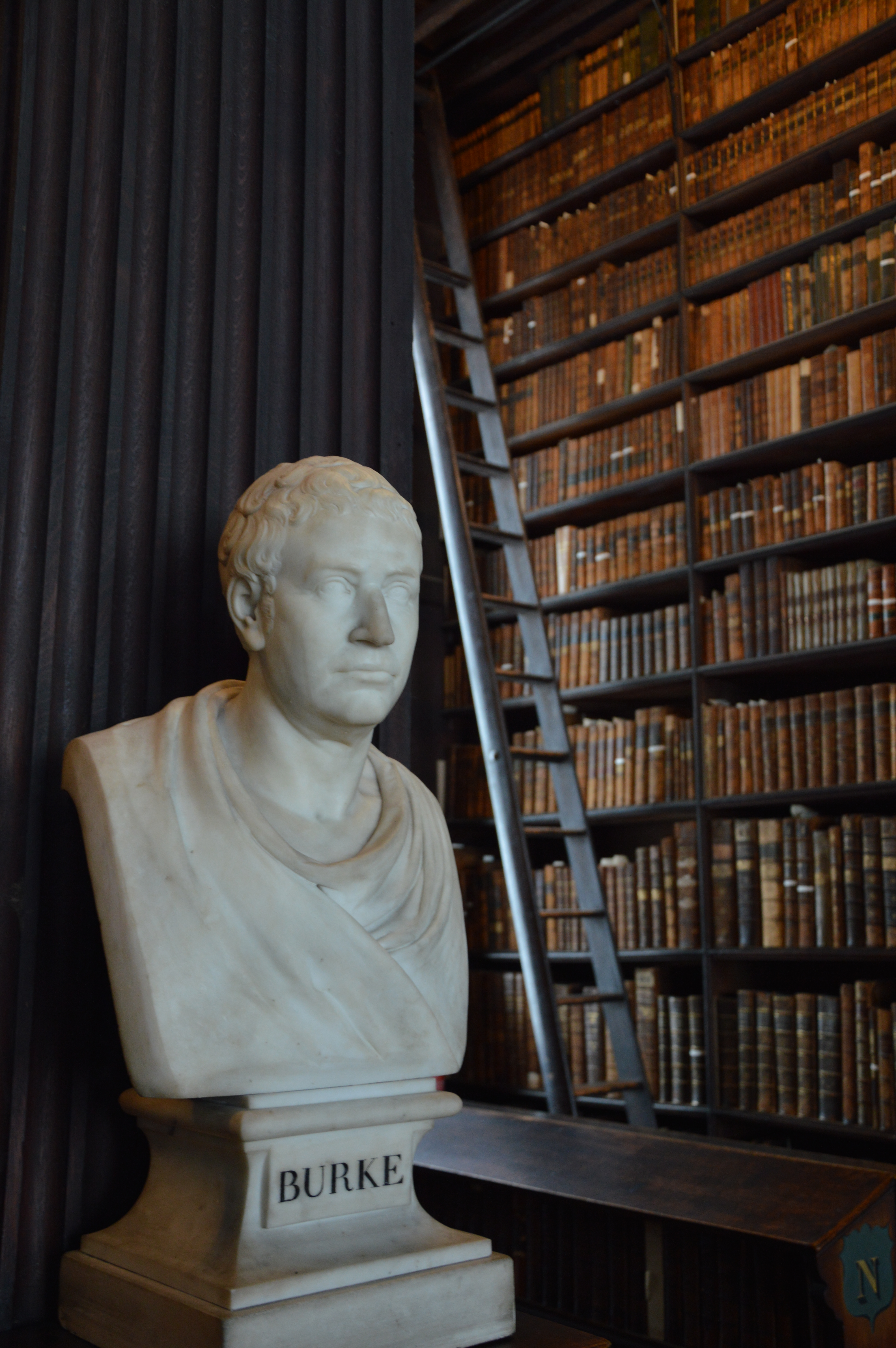 John Hickey's bust of Edmund Burke in the Long Room of the Old Library, Trinity College, Dublin.